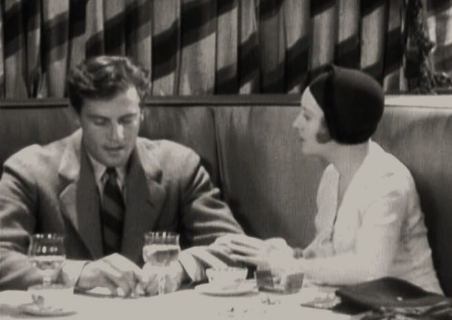 Joel McCrea and Dorothy Mackaill in Kept Husbands - cropped screenshot